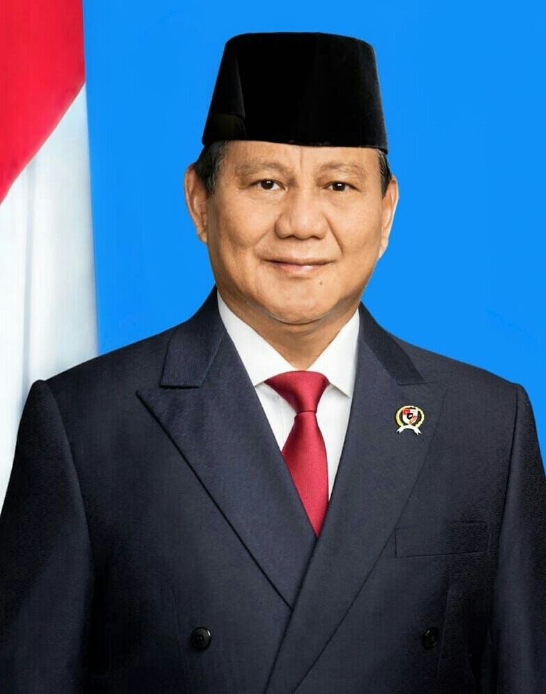 Minister of Defense of the Republic of Indonesia, Lieutenant Gen. (Ret.) Prabowo Subianto. He was appointed by President Joko Widodo at 23 October 2019